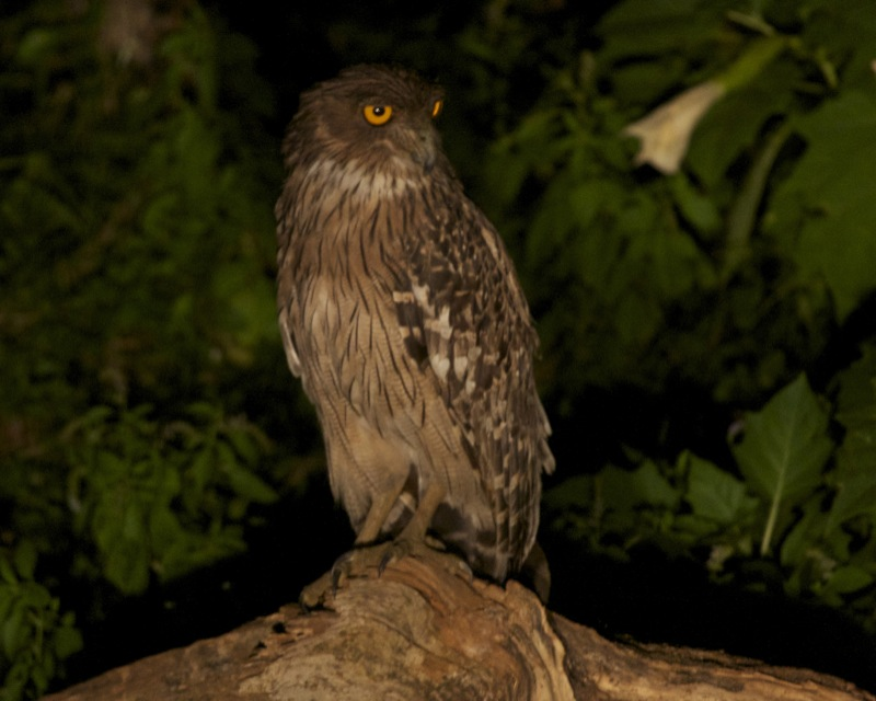 Brown Fish-Owl - as caught in the car's headlights Ketupa zeylonensis Nominate race, Ketupa zeylonensis zeylonensis Yala National Park, Sri Lanka 8th. January 2012 Distribution: ssp: 690V0048